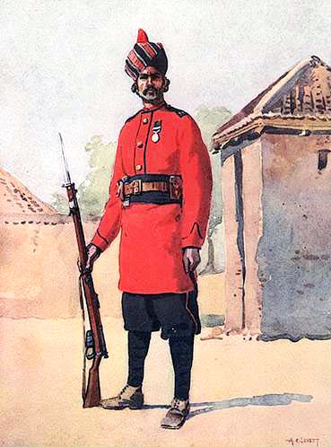 Punjabi Muslim Sepoy of 22nd Punjabis (now 7th Battalion The Punjab Regiment, Pakistan Army). Watercolour by Major Alfred Crowdy Lovett, 1910. Published in MacMunn & Lovett, Armies of India, 1911.